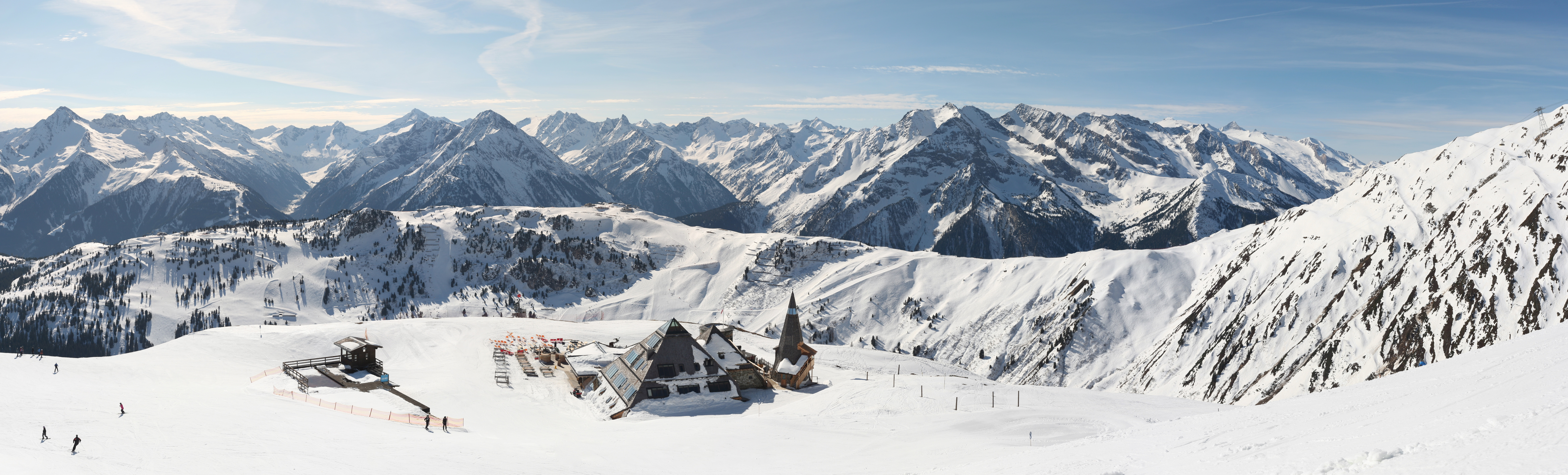 Mayrhofen is a town in the Zillertal. The Zillertal ("Ziller valley") is a valley in Tyrol, Austria that is drained by the Ziller river. lens: Pentacon 50mm/1.8 (old manual lens) panorama created using Hugin free software final resolution: 9354 x 2834